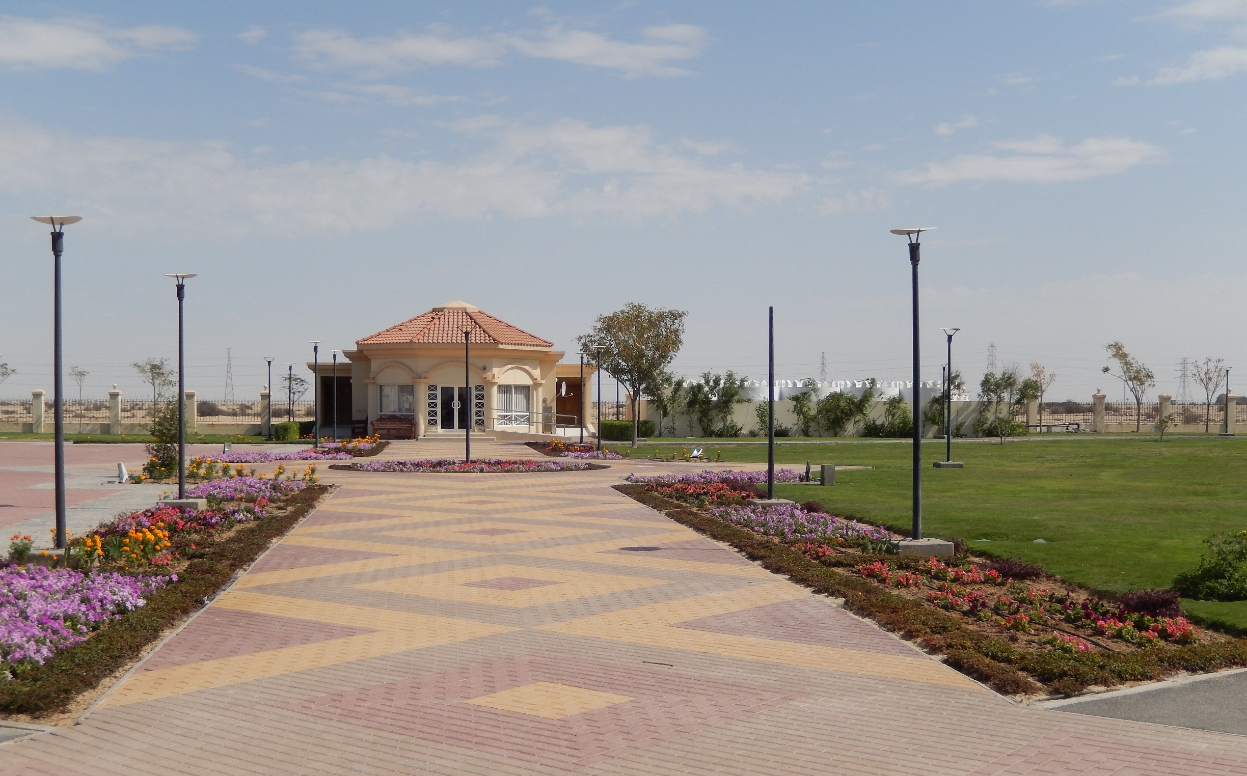 Al Ghuwayriyah Park in Al Ghuwayriyah, northern Qatar.